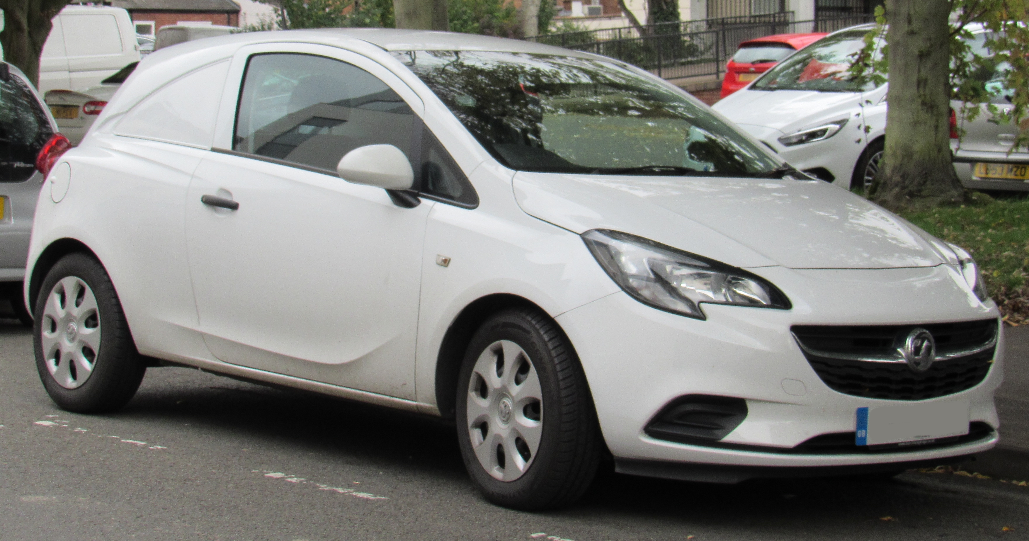 2015 Vauxhall Corsavan CDTI 1.2 Front Taken in Leamington Spa